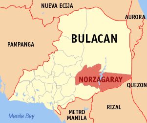 Map of Bulacan showing the location of Norzagaray